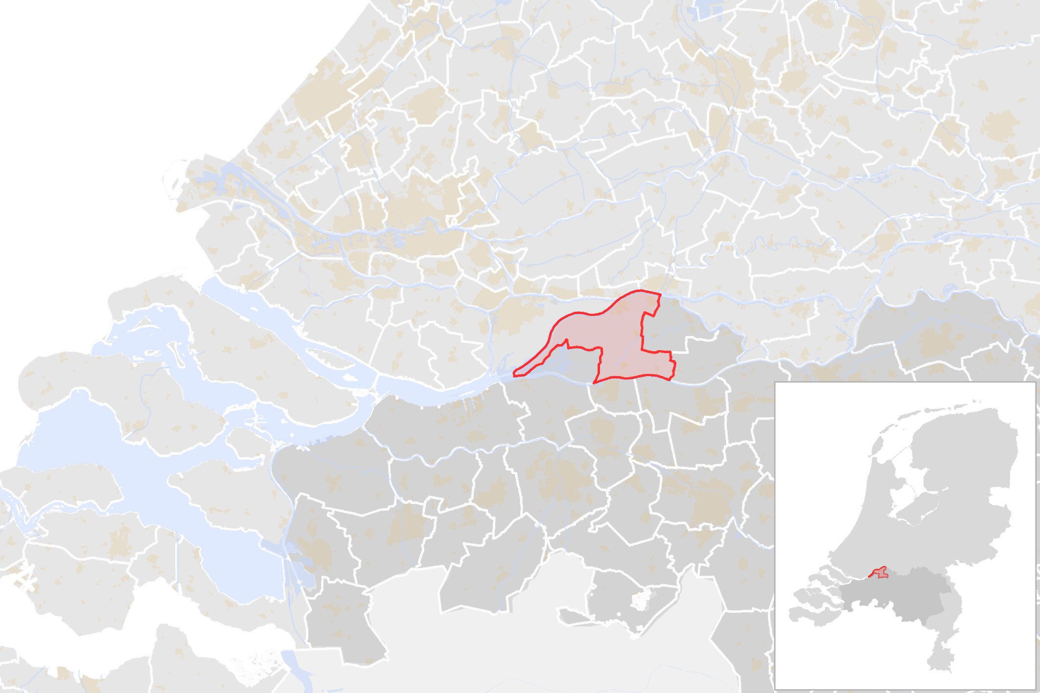 Locator map showing municipality boundary of one of the 390 Dutch municipalities (as of 2016)